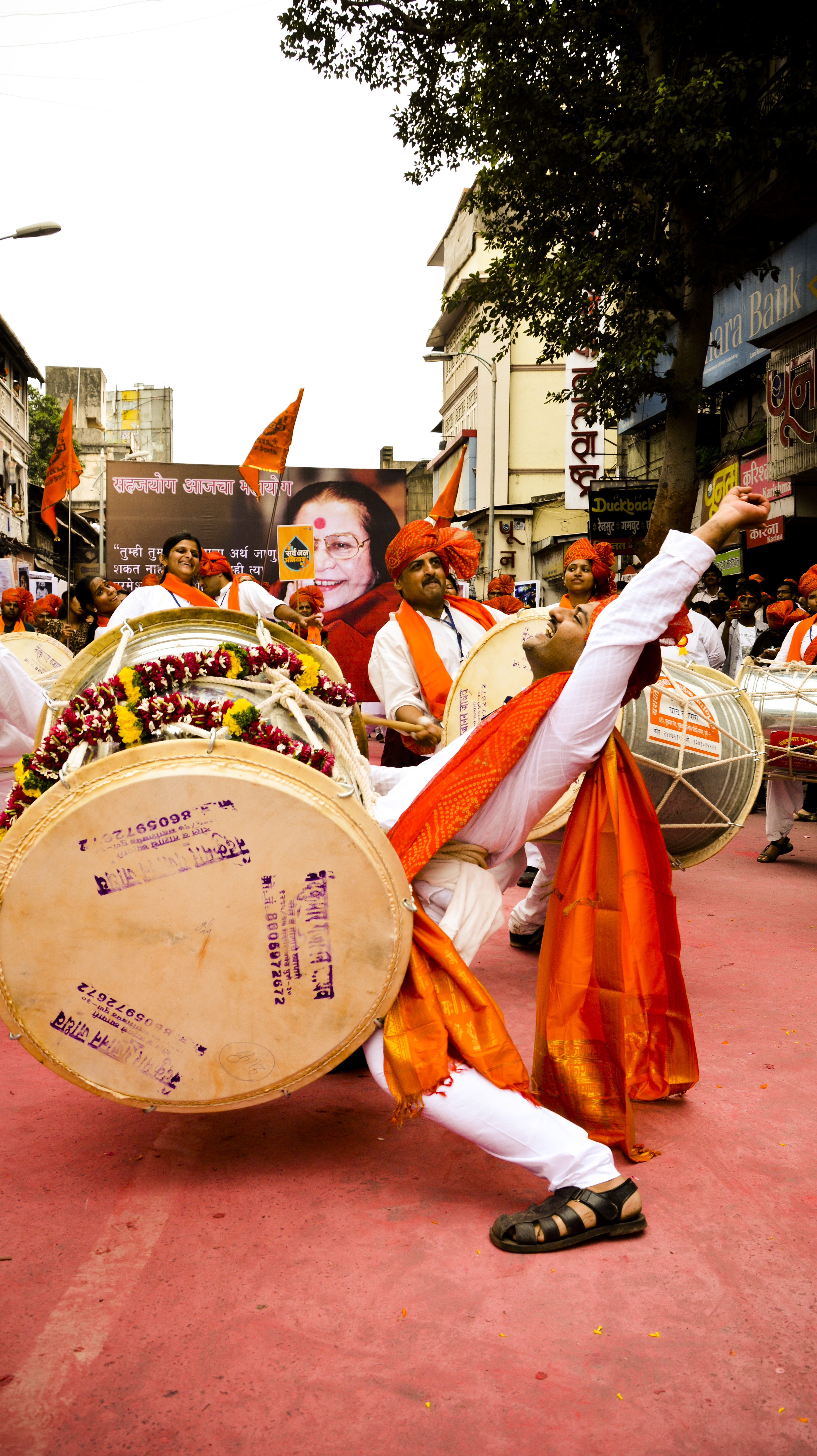 A really good Dhol Player in Pune, Maharashtra, India